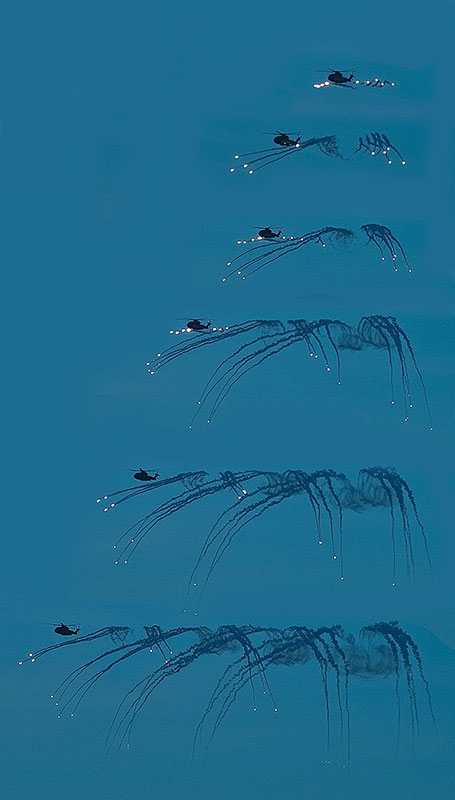 Composite photo of an RAF Merlin helicopter testing flares.